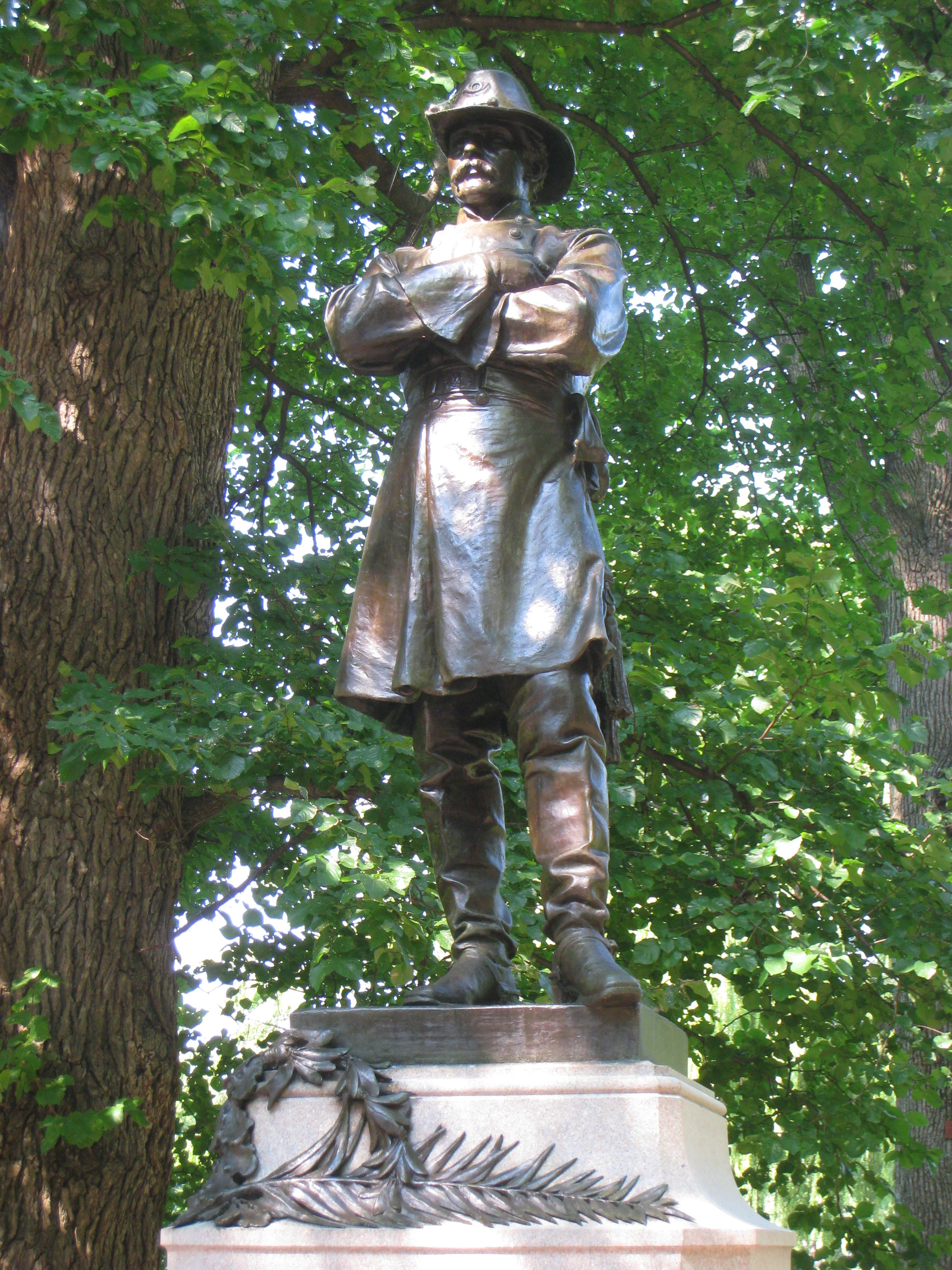 Statue of Colonel Thomas Cass by Richard Edwin Brooks (1865-1919), located in Boston Public Garden, Boston, Massachusetts, USA.